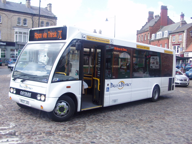 Dales & District bus (reg. MX07 JOU), a 2007 Optare Solo M880SL midibus, in Thirsk, North Yorkshire on route 70.